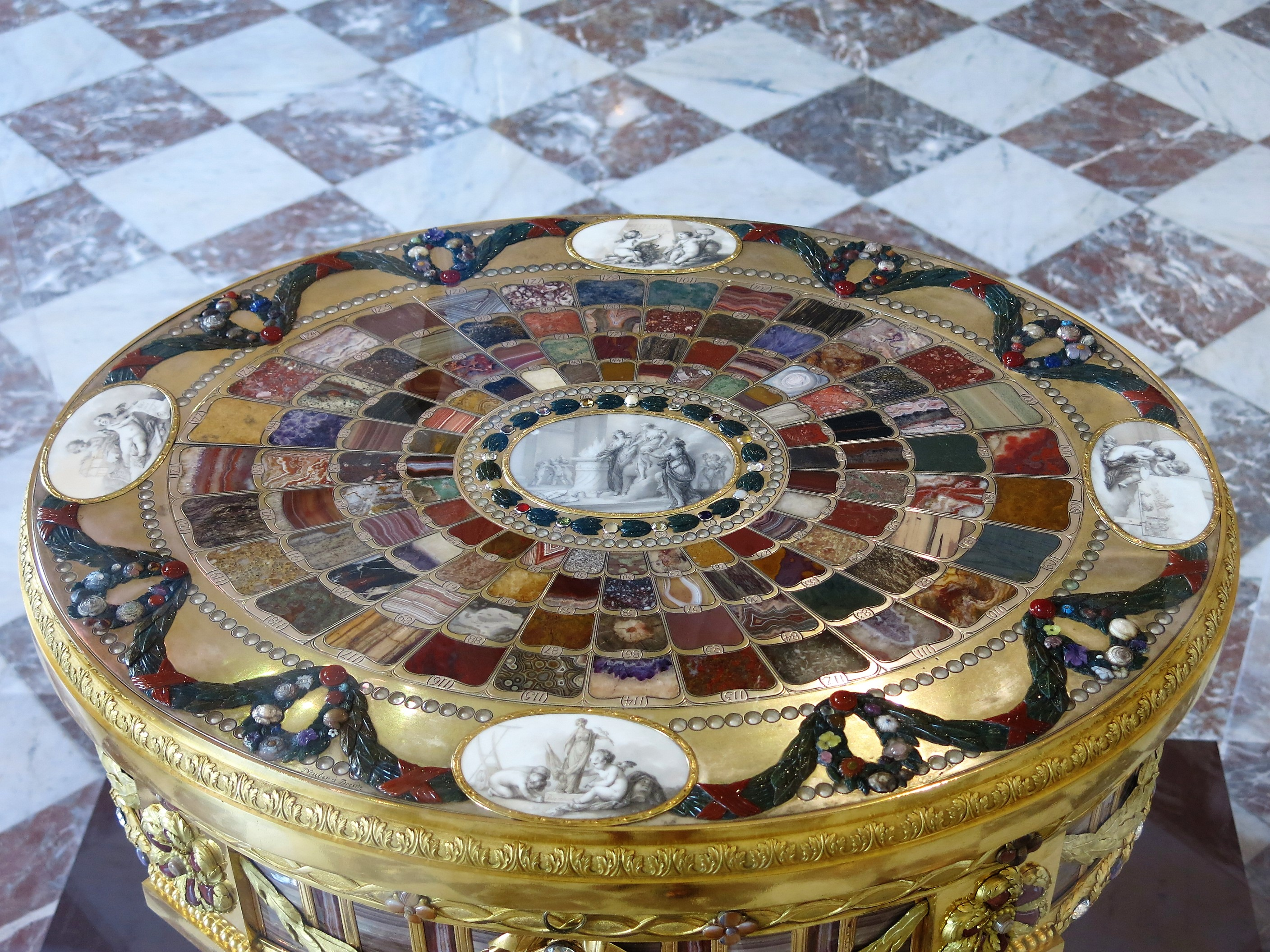 Top of the table de Teschen in the Louvre museum (Paris, France).